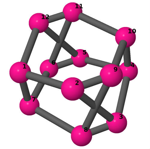 One of 85 simple cubic graphs with 12 vertices.